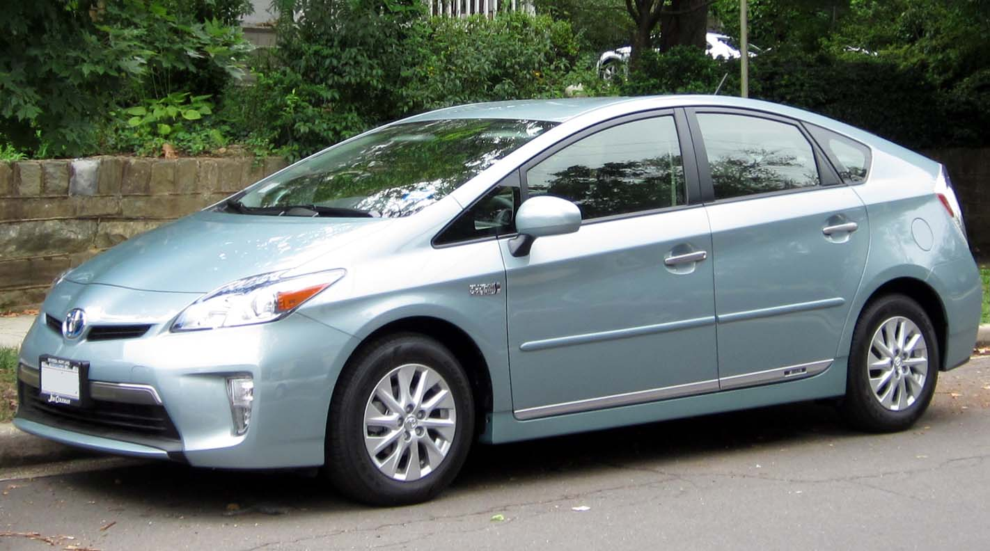 2012 Toyota Prius Plug-in Hybrid photographed in Washington, D.C., USA.